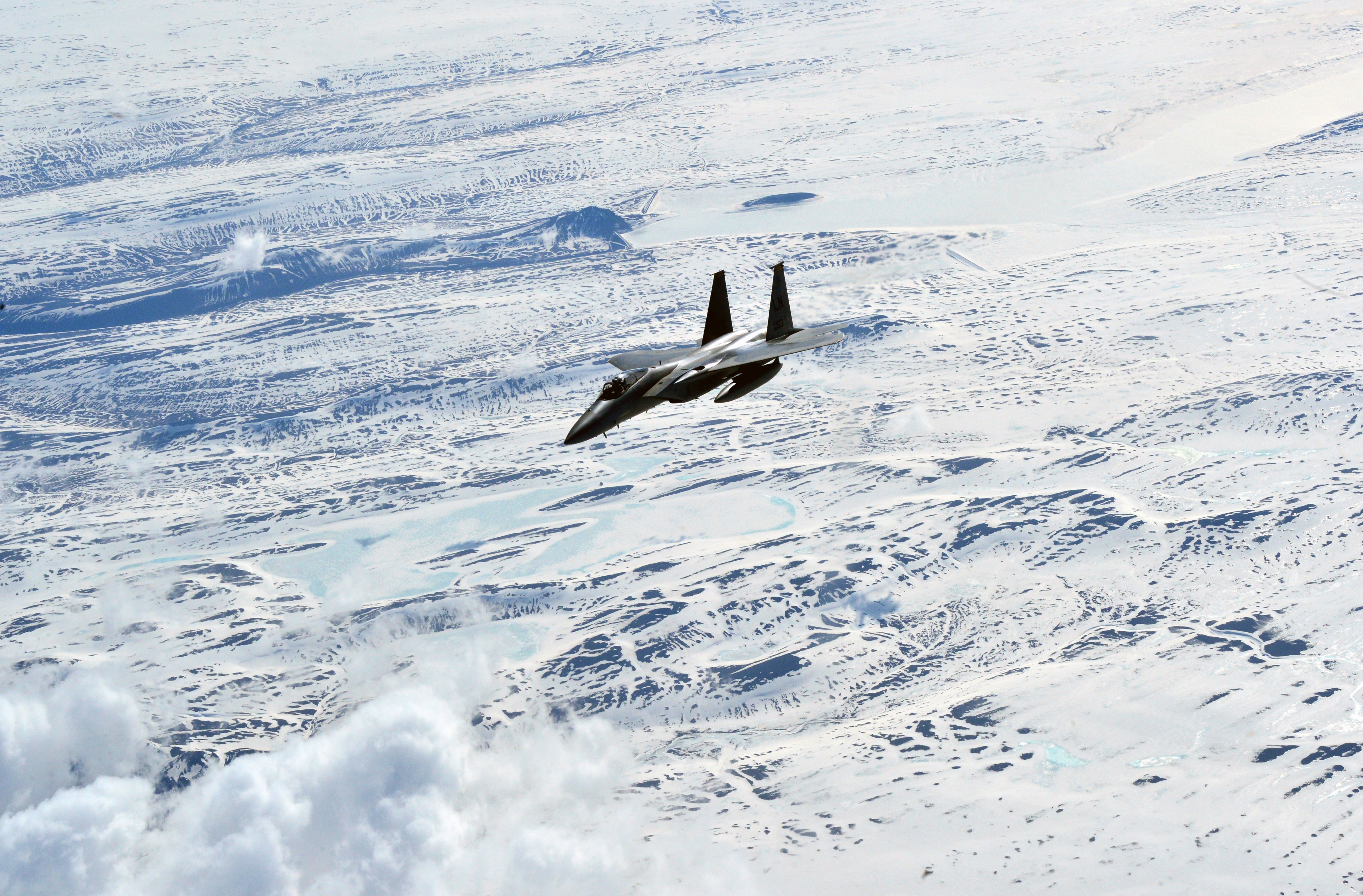 A F-15C Eagle flies over Iceland during Icelandic Air Surveillance and Policing April 22, 2015. IAS is a recurring NATO mission designed to maintain the security of Icelandic airspace by providing a fighter aircraft presence in the region. (U.S. Air Force photo by 2nd Lt Meredith Mulvihill/Released)